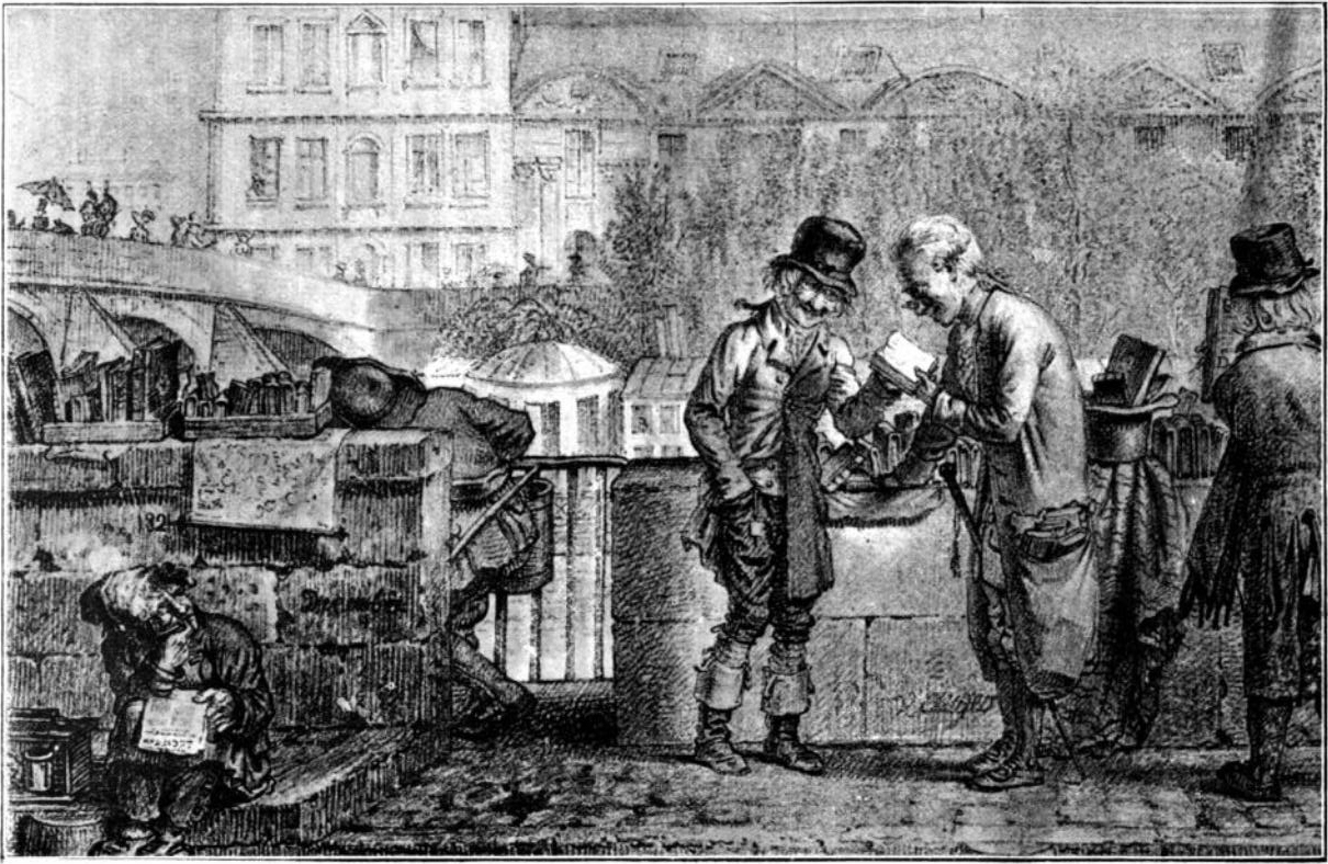 Secondhand Bookseller on the Quai Voltaire in Paris, France, 1821